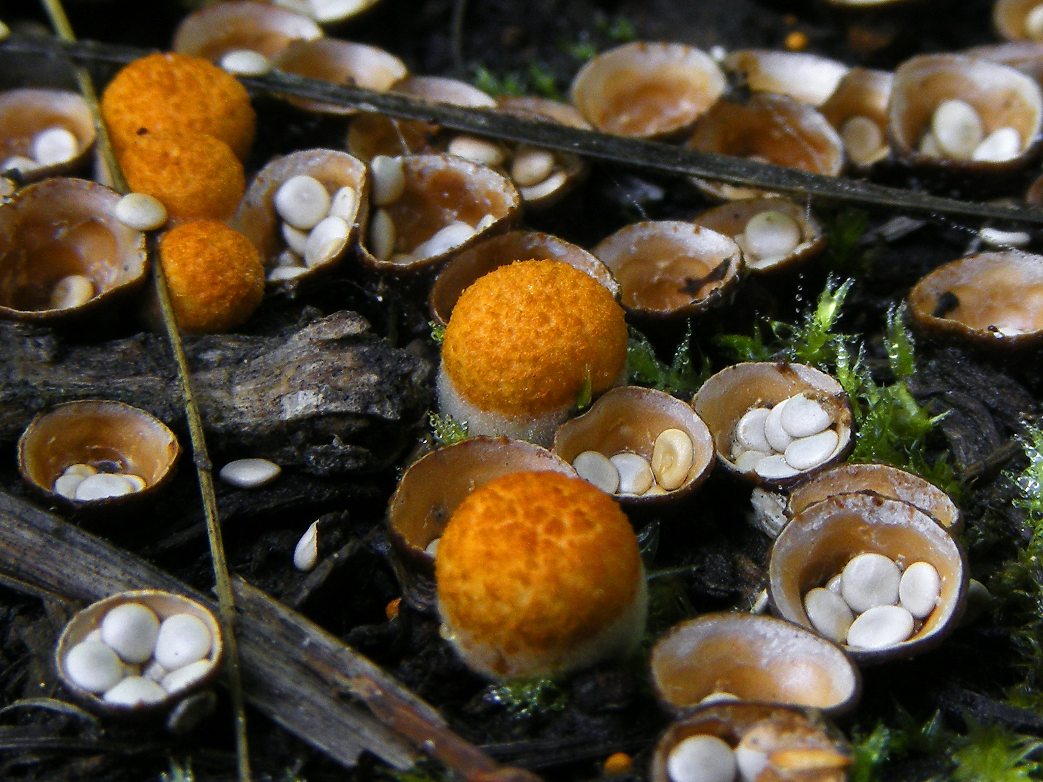 Crucibulum laeve specimens.